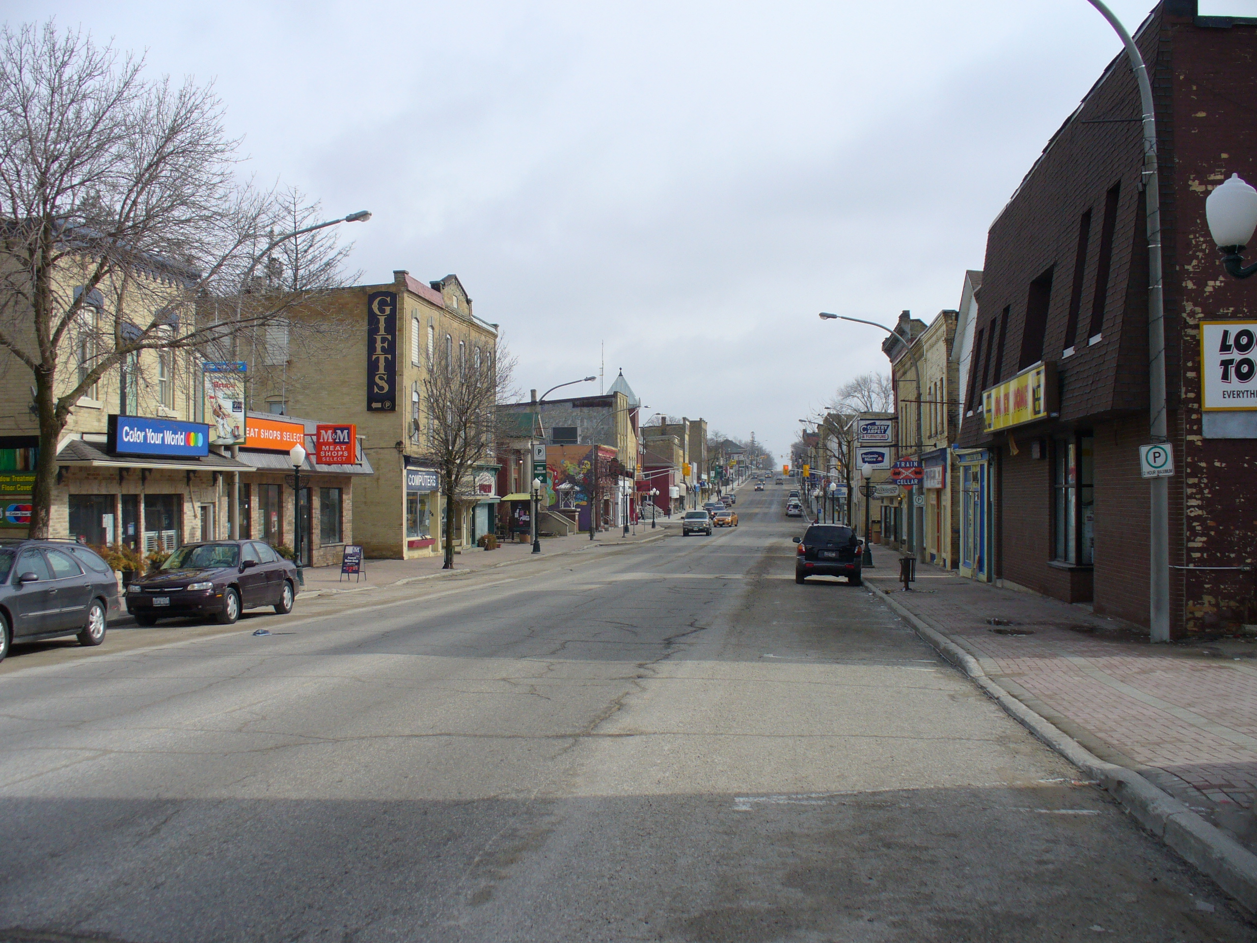 Downtown Mount Forest, ON